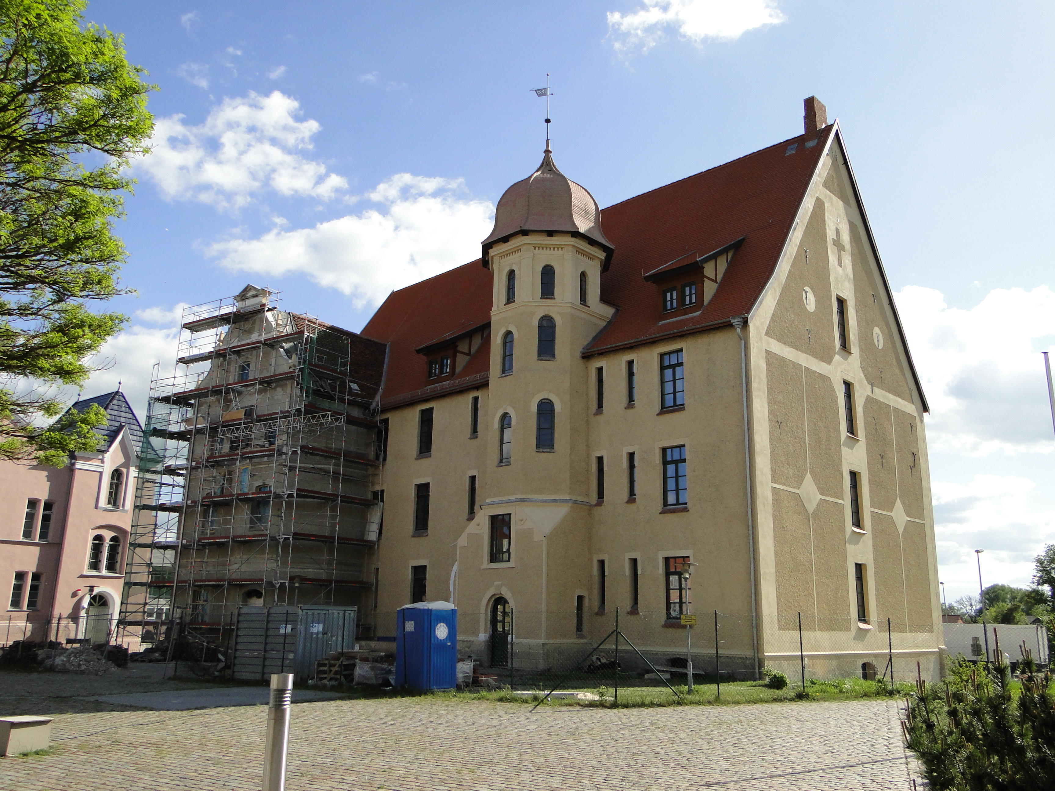 Castle during redevelopment in Bützow, district Rostock, Mecklenburg-Vorpommern, Germany